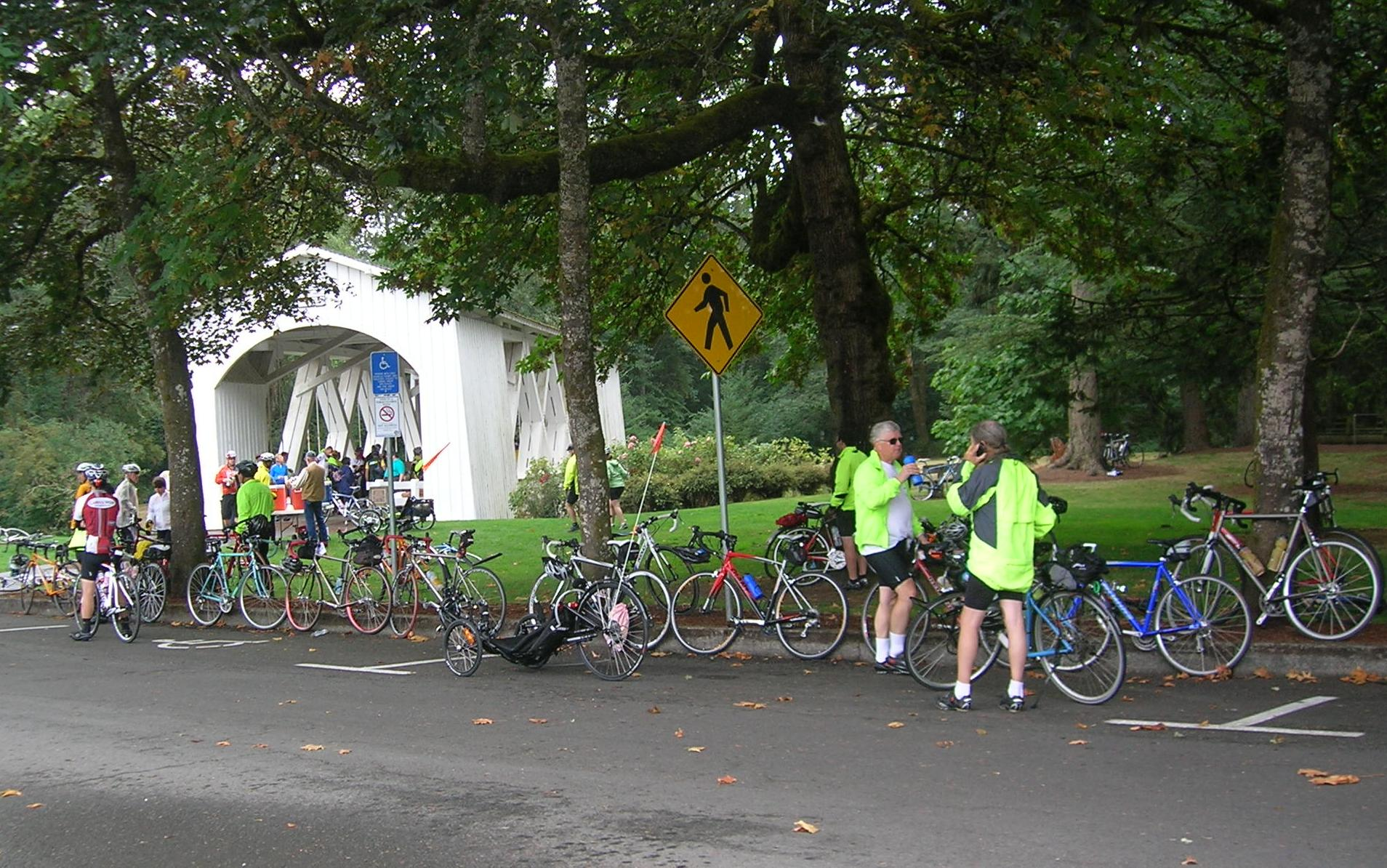 A rest stop in Stayton at the Stayton-Jordan covered bridge, at the 50-mile mark in the Peach of a Century bicycle century ride near Salem, Oregon, in 2011.